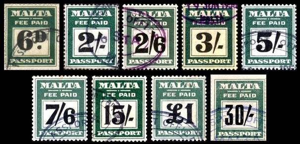 1933-62 passport revenue stamps of Malta